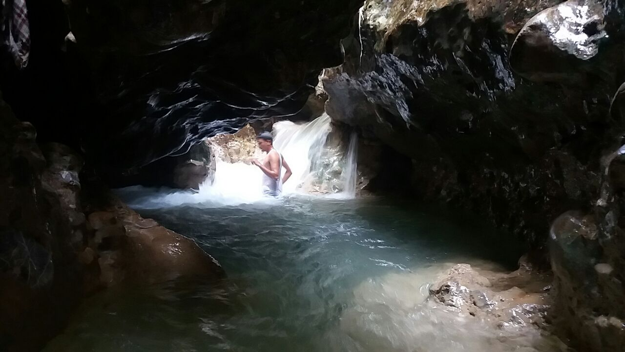 Origin scene of river Tamsa